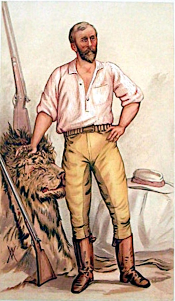 Caricature of Frederick Selous. Caption read "Big Game".